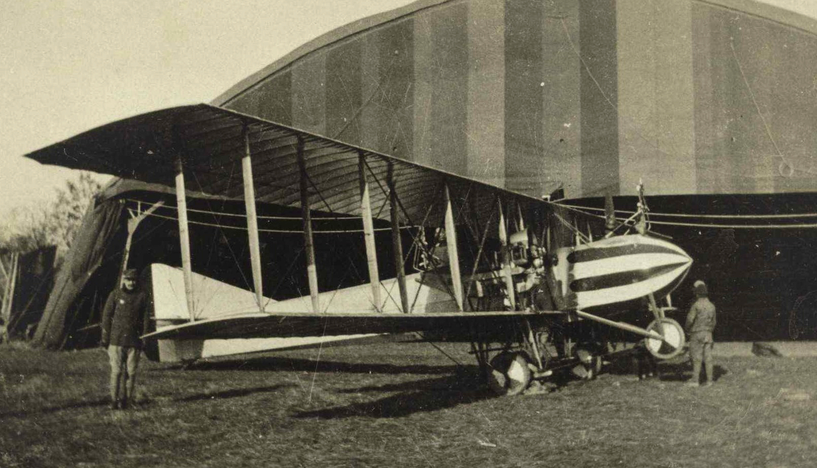 Caudron R.4 twin engine reconnaissance aircraft at le Hamel on the Somme